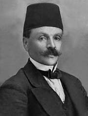 Shukri Bey (Mehmet Şükrü Fırat)